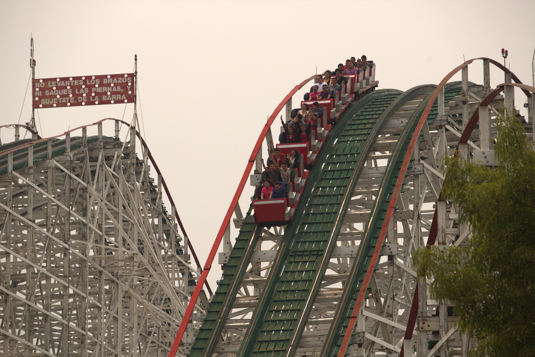 Un clásico de La Feria.